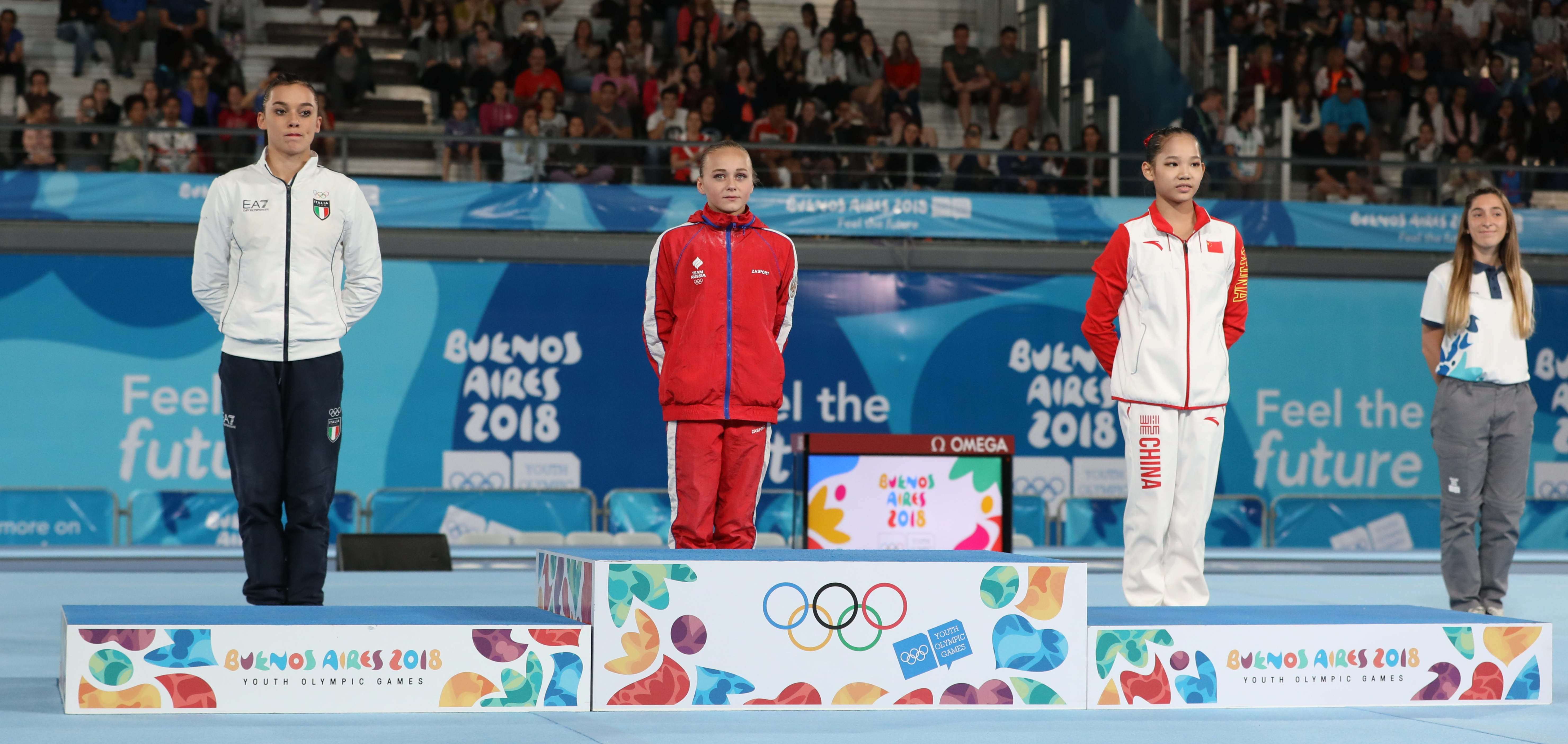 Girls' Artistic Gymnastics, Apparatus finals, Uneven bars